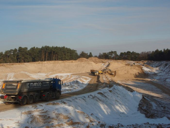 Gravel pits